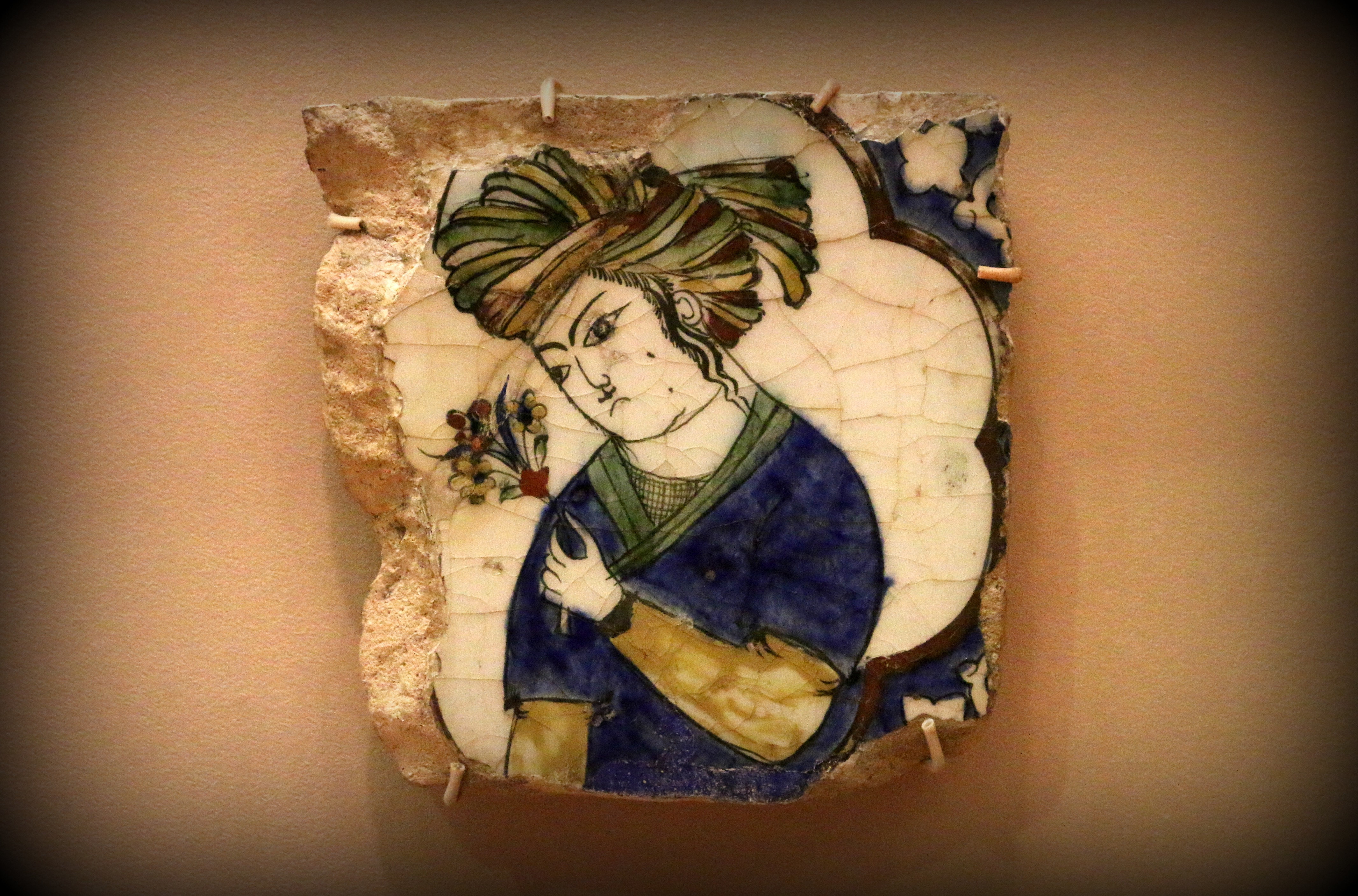 17th-century tile from Persia - Safavid Era; State Museum of Oriental Art in Moscow | Photo: Persian Dutch Network